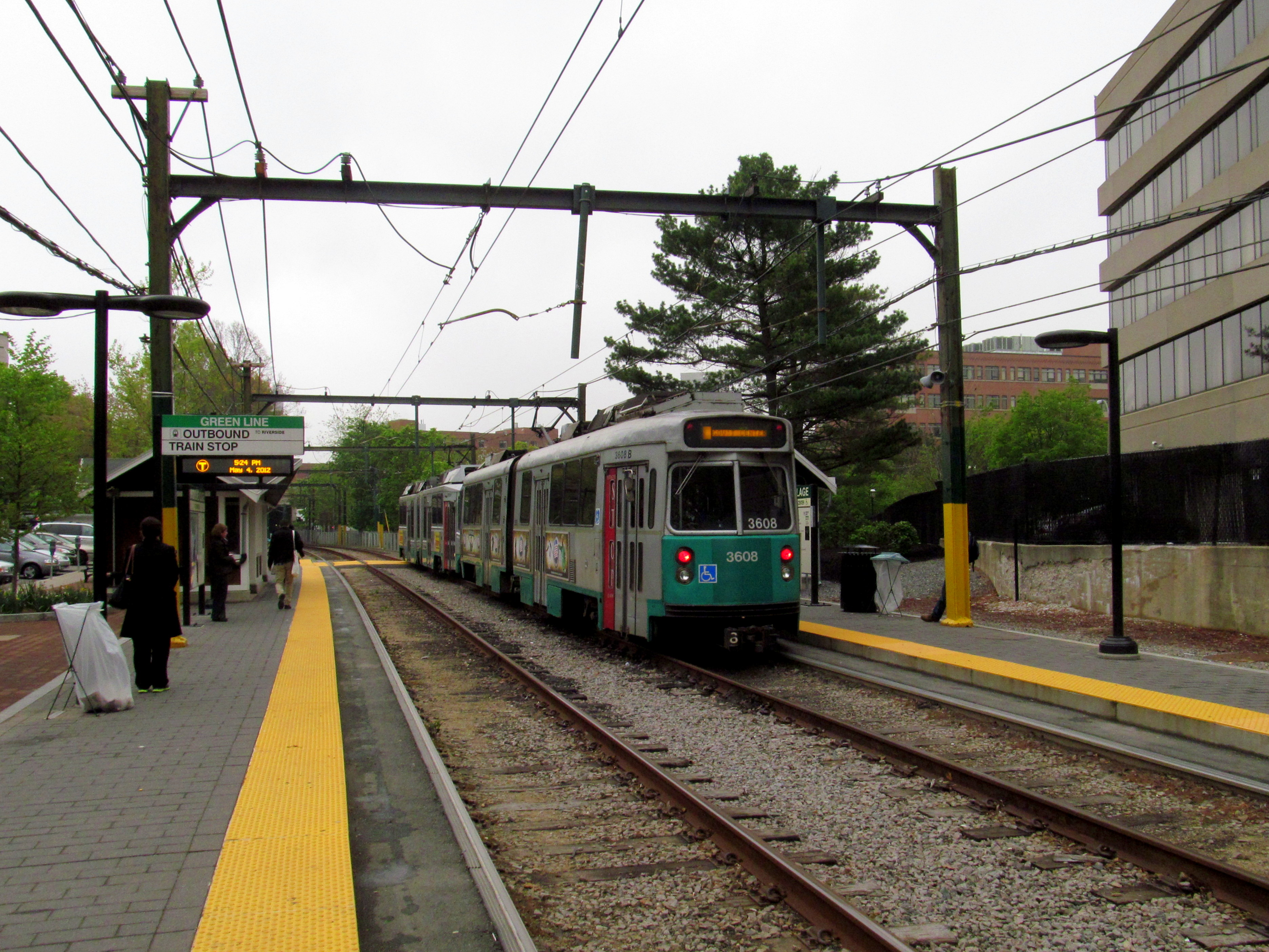 A Type 7 trails on an inbound train at Brookline Village station in May 2012